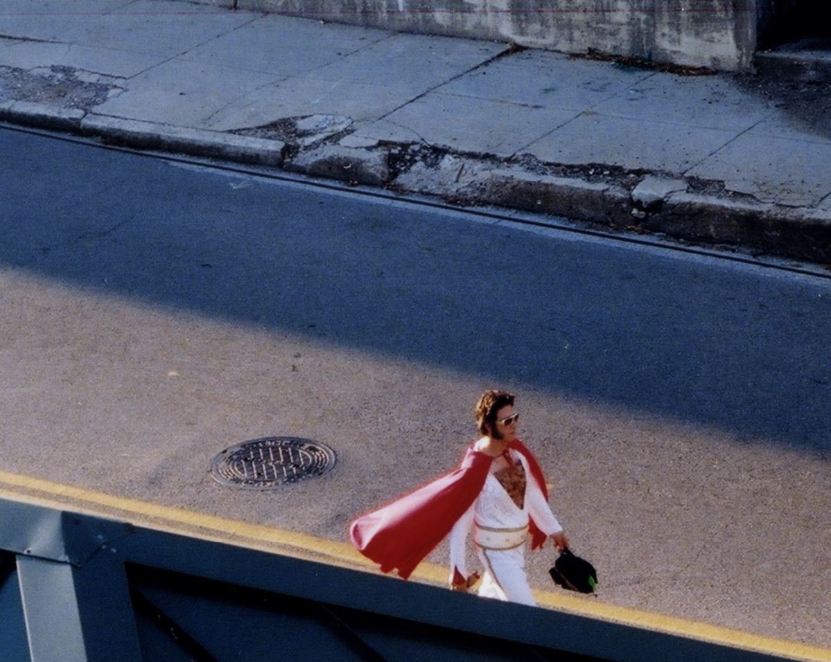 Elvis Presley impersonator (or perhaps someone simply wearing an Elvis costume) walking down the center of G.E. Patterson Blvd. in the South Main district in downtown Memphis, Tennessee during "Tribute Week" 2003.